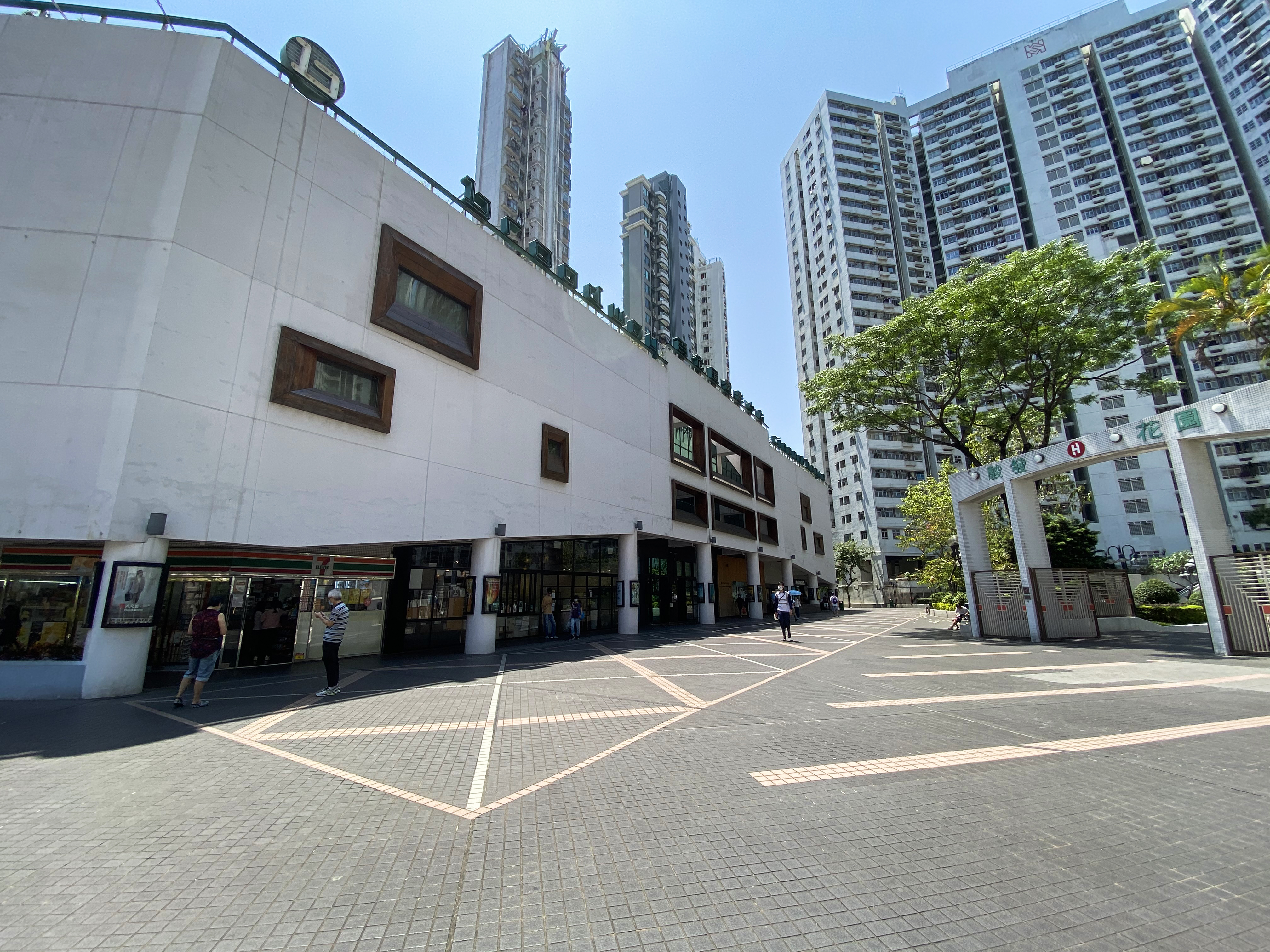 Broadway Cinematheque Kubrick